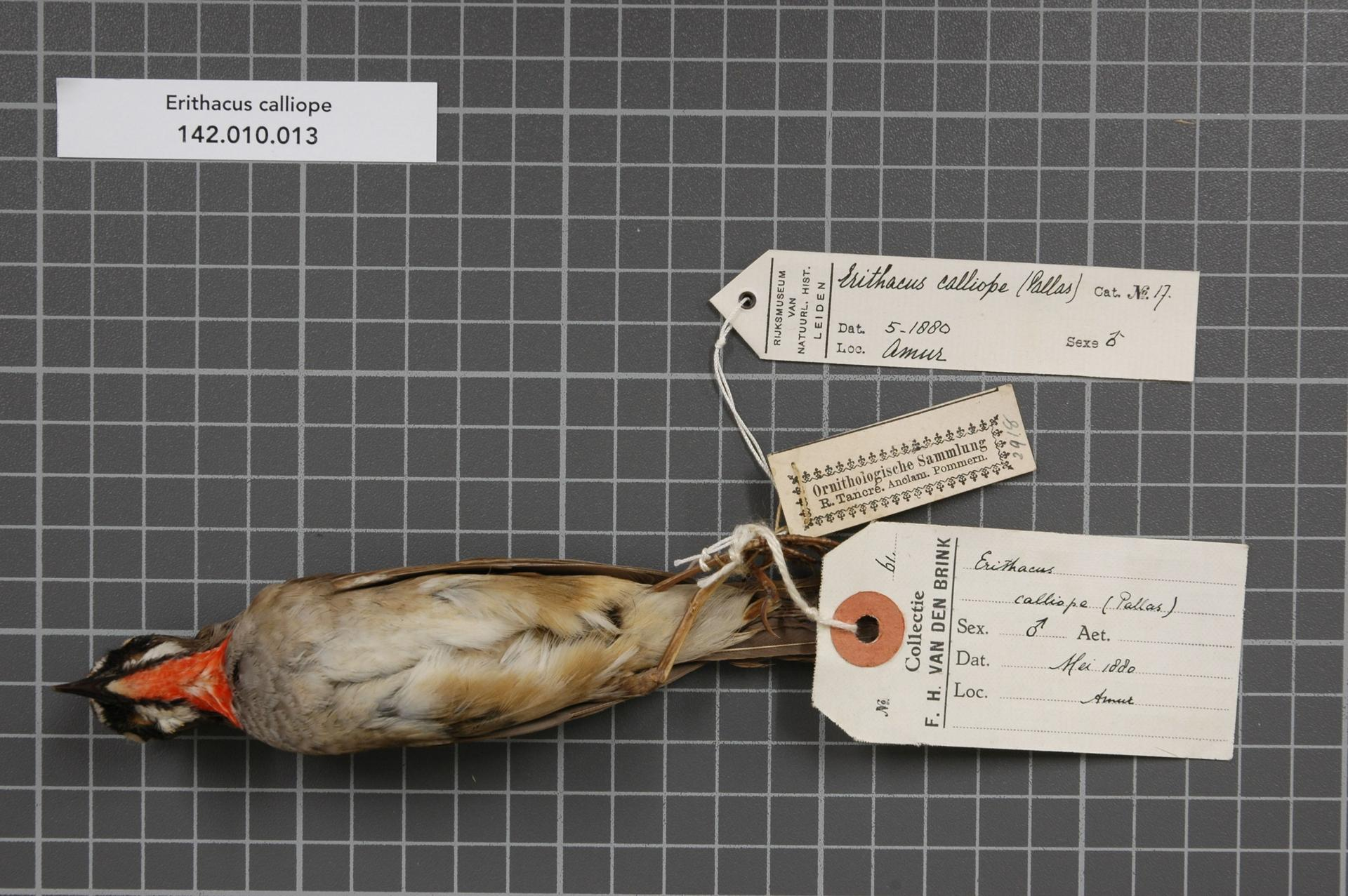 Erithacus calliope (Pallas, 1776)